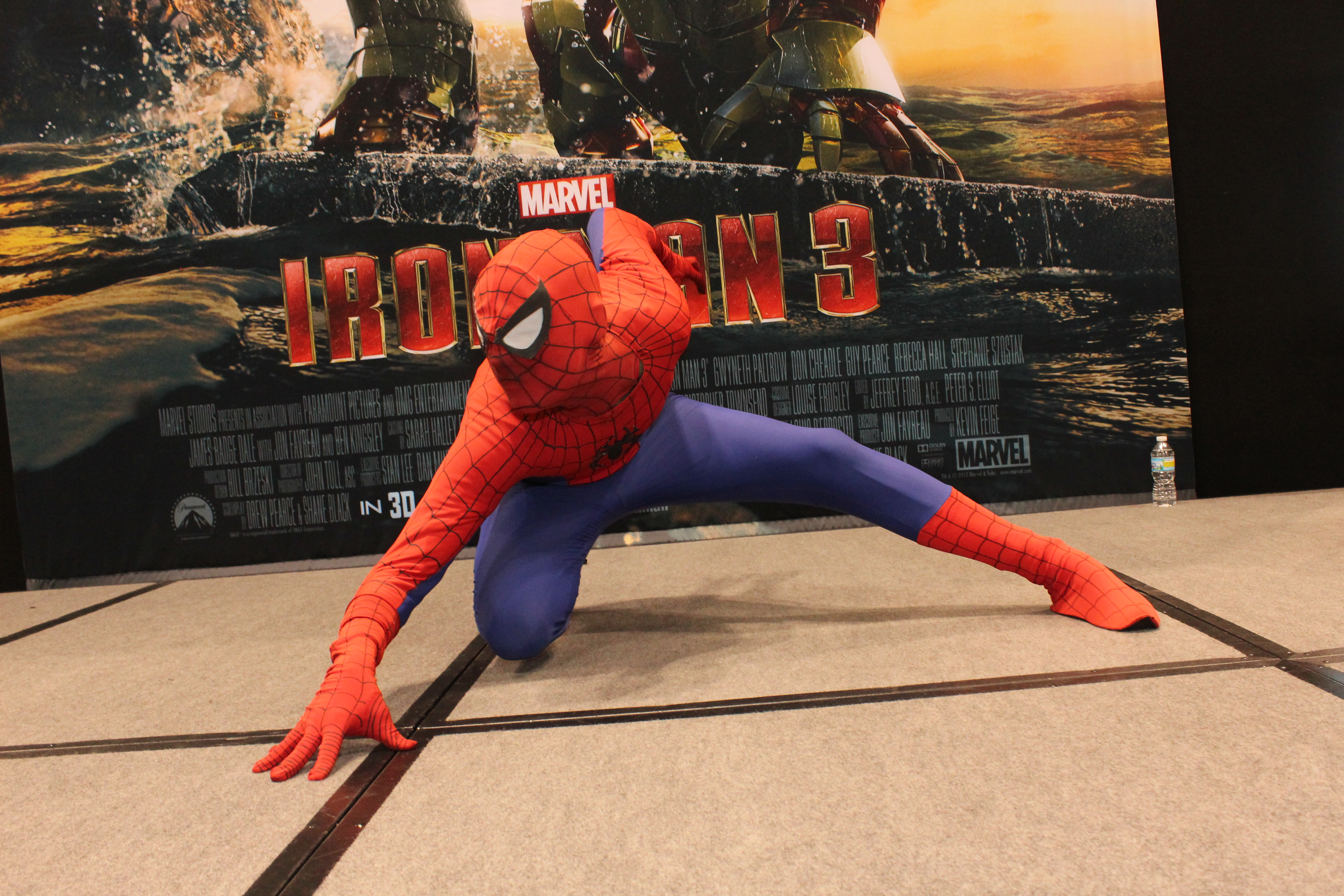 Cosplay at the 2013 Chicago Comic & Entertainment Expo (C2E2).